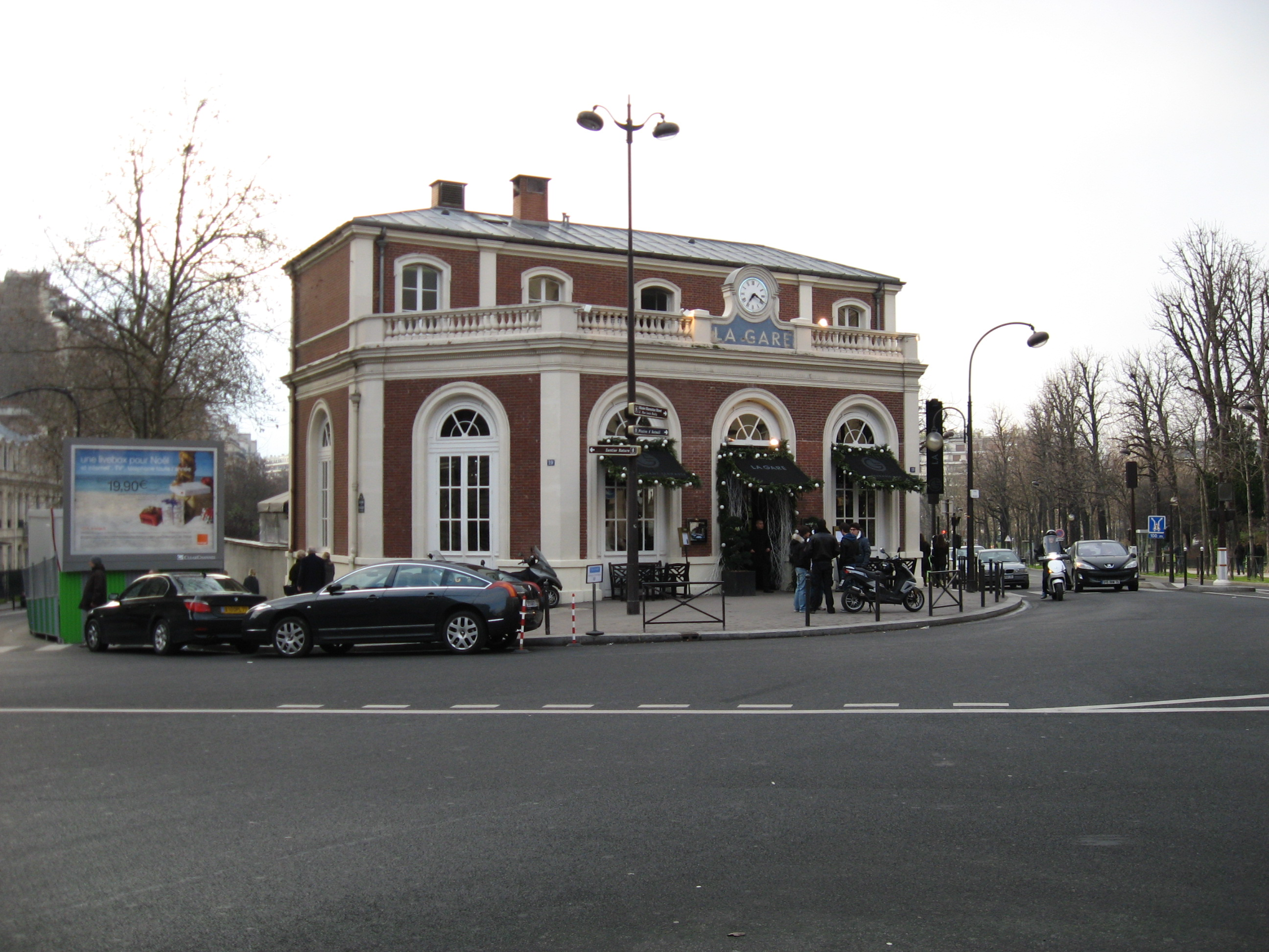 The old "gare de Passy" on the ligne d'Auteuil is on a closed part of the line. Is now used for a restaurant.